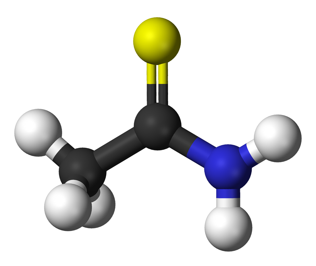 Ball and stick model of the thioacetamide molecule.